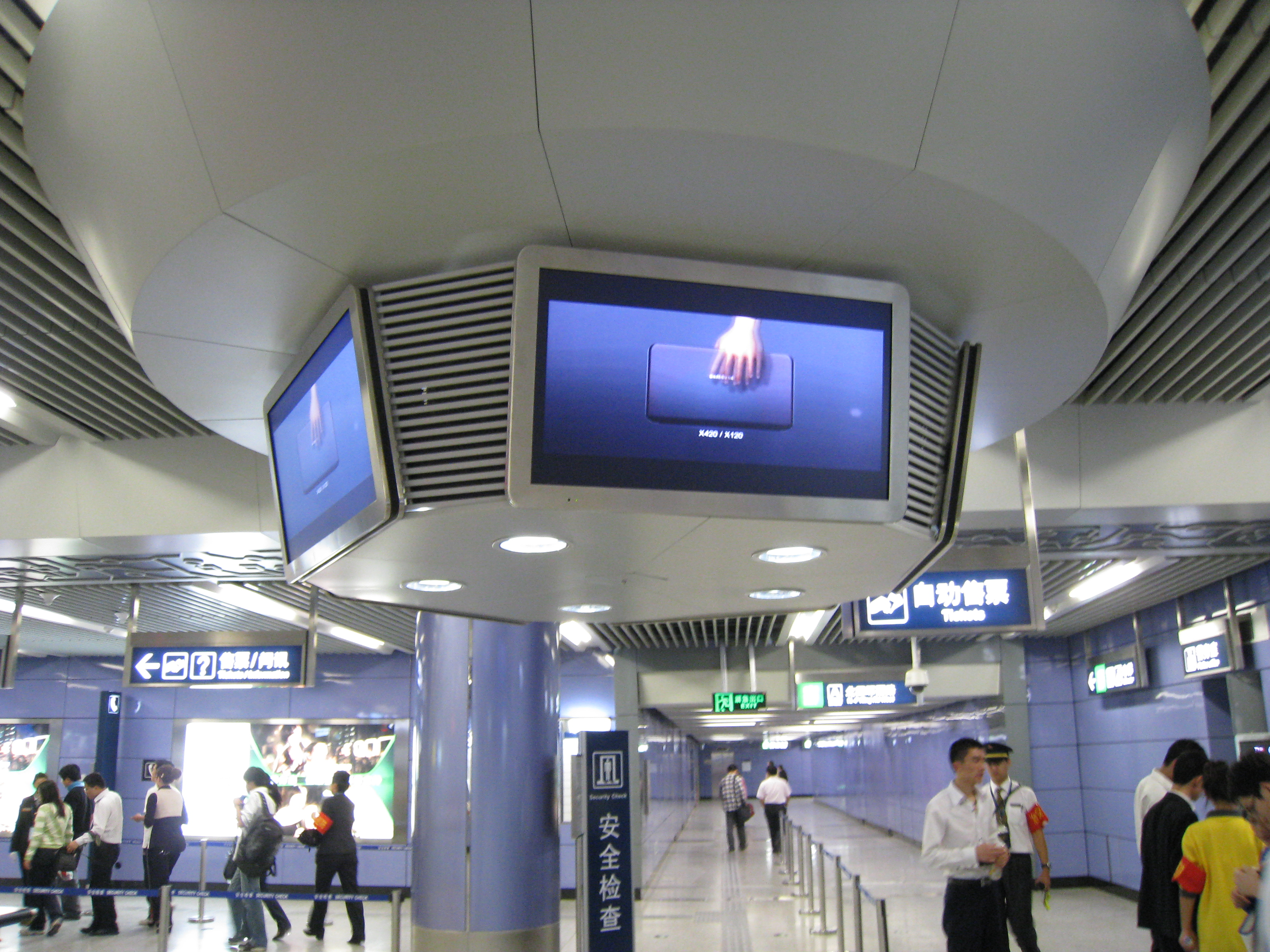 The 5-screen circle in Zhongguancun Station of Line 4, Beijing Subway.